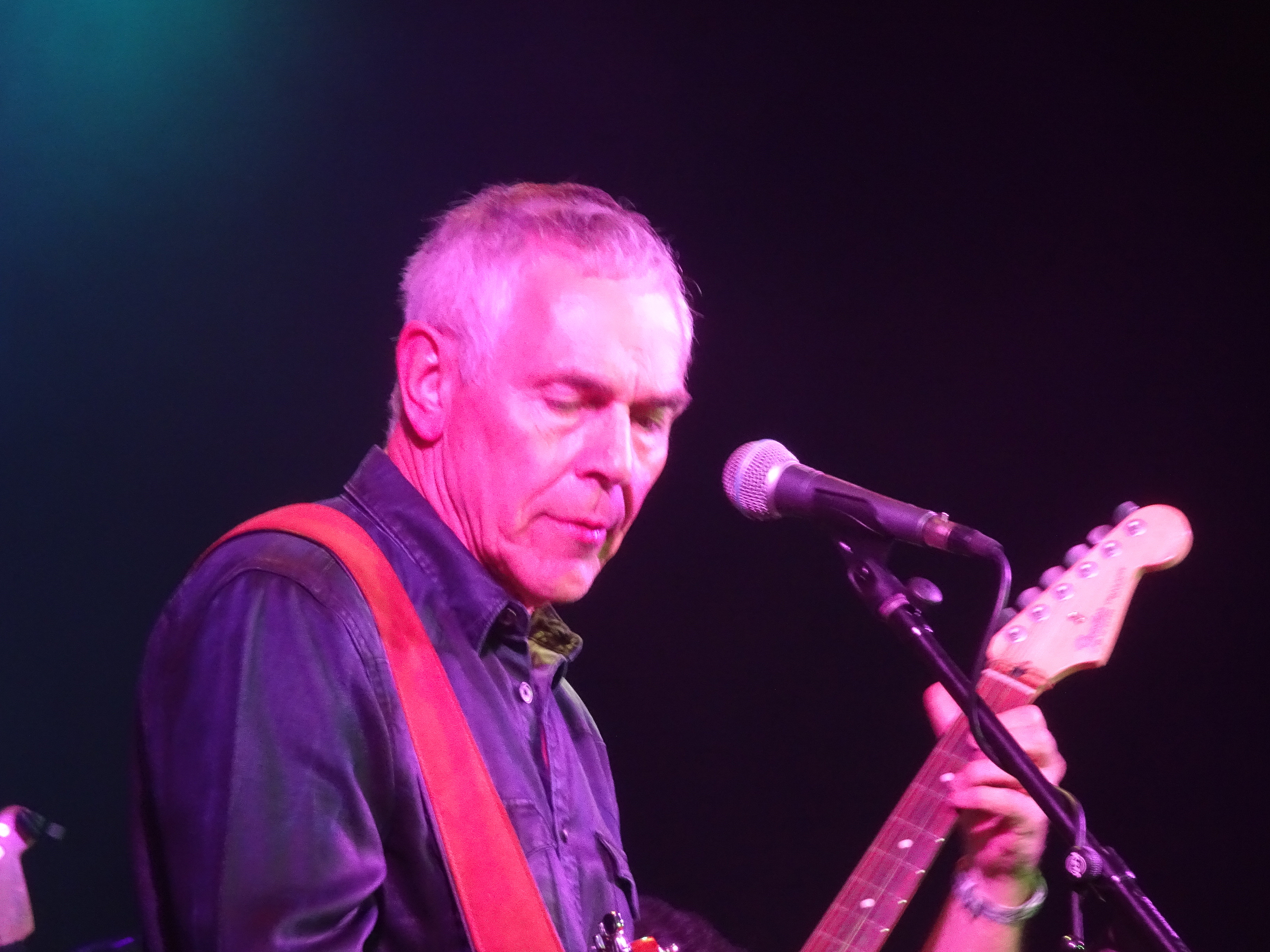 Beeb Birtles (ex-Zoot, Little River Band) live at his induction into the South Australian Music Hall Of Fame at the German Club, Adelaide on November 24 2017.